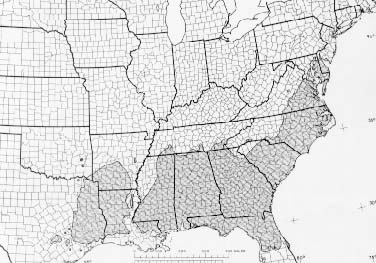 Map showing the NATIVE range of loblolly pine - note that this is NOT the commercial range, where it is grown in the modern day.